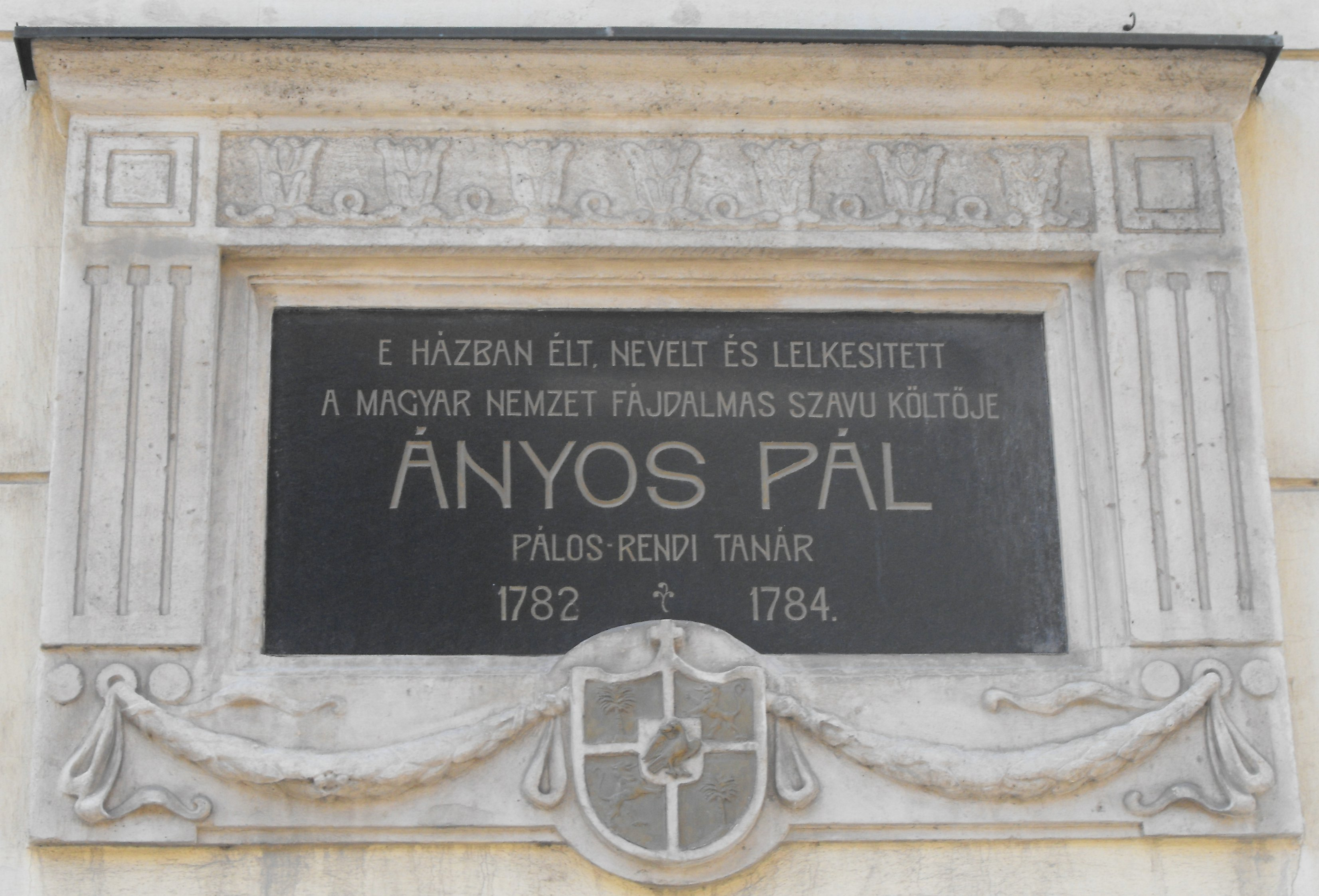 Plaque of Pál Ányos, Hungarian poet in Székesfehérvár, Hungary.